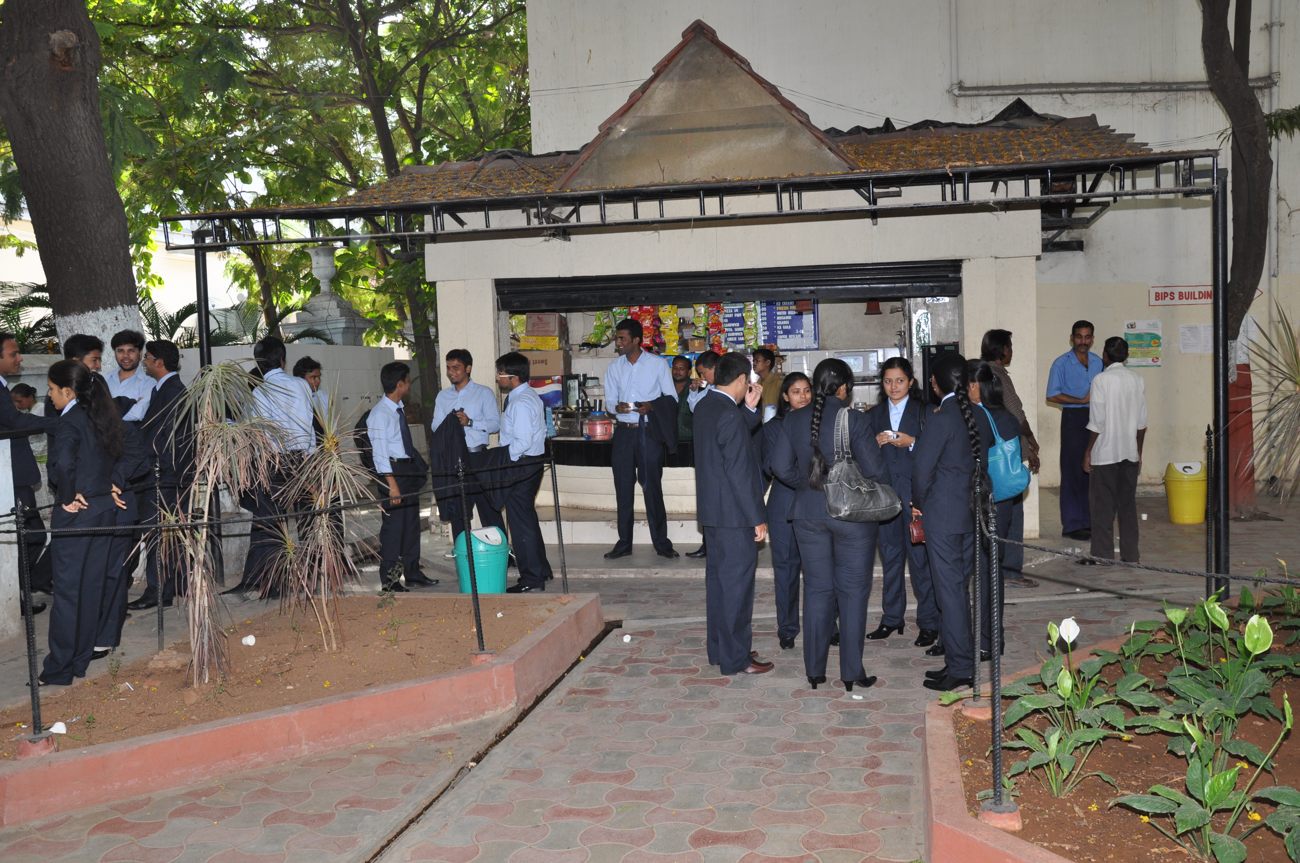 Badruka College Canteen